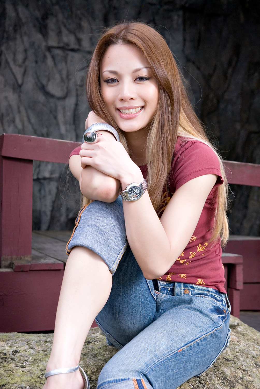 A portrait of Hannah Sarah Tan in Genting - Malaysia.